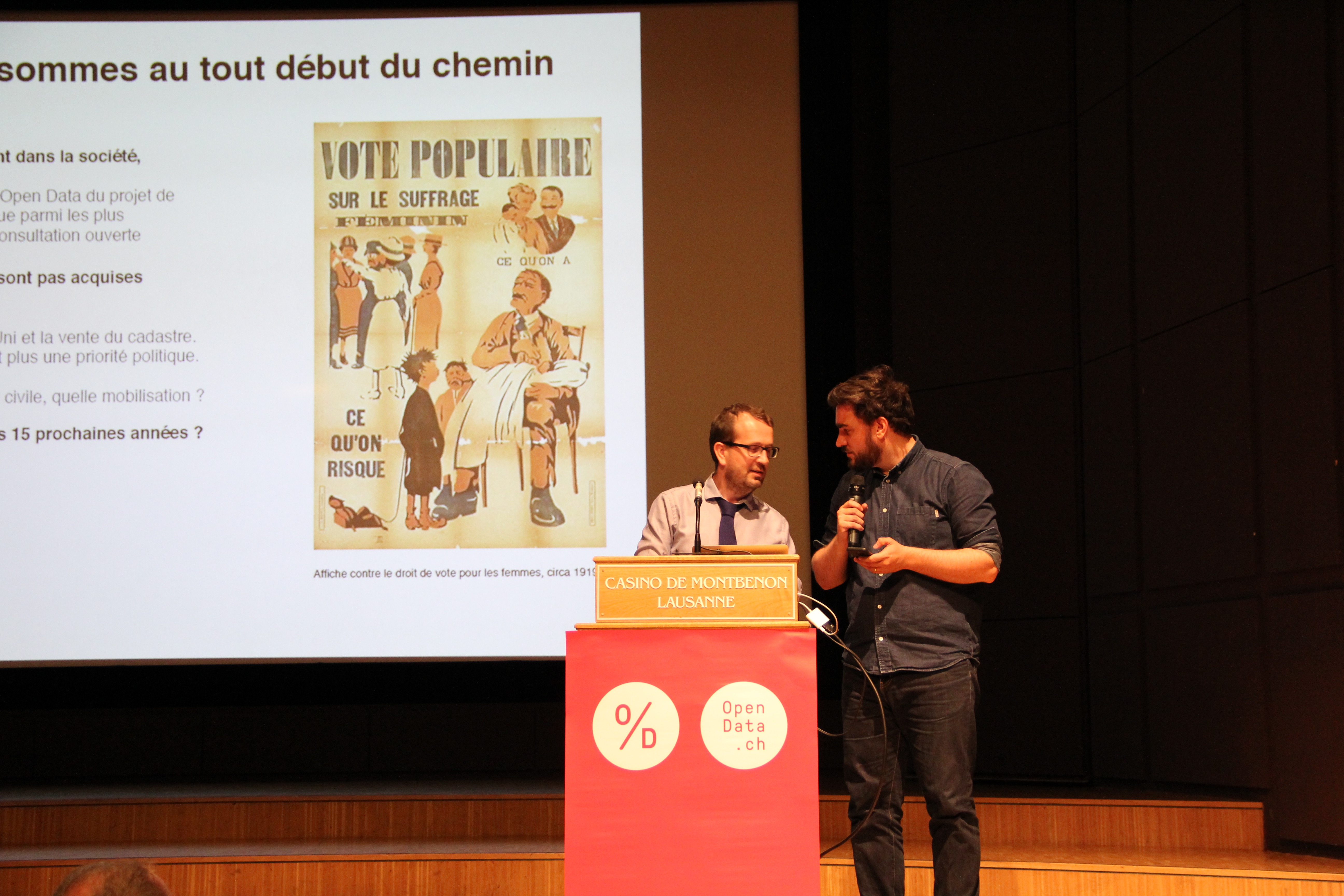 The Conference is hosted by the Swiss Chapter of Open Knowledge International and hosts an annual conference. The conference 2016 was held in Lausanne at the Casino de Montbenon.